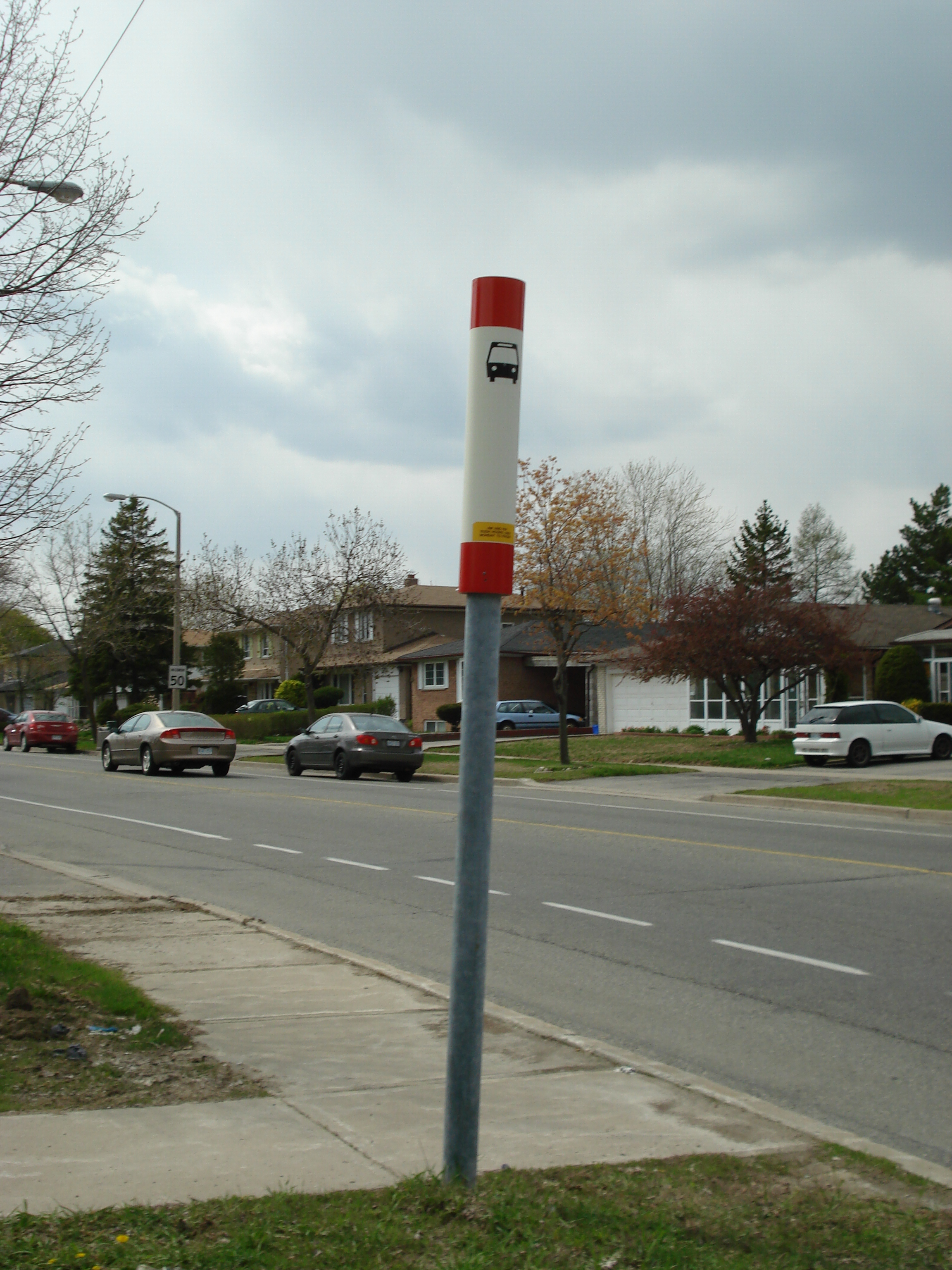 A typical, plain TTC bus stop without a canopy, on Huntingwood Drive.